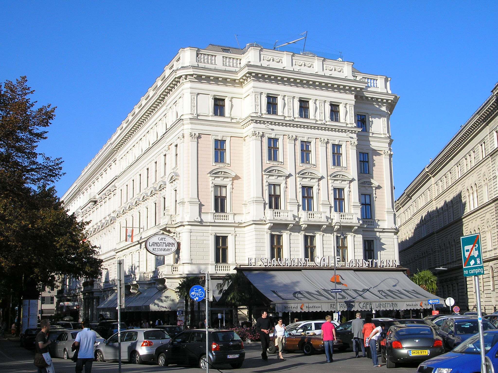 The Palais Lieben-Auspitz at the Ringstraße in Vienna, next to the Burgtheater. Former residential seat (Ringstraßenpalais) of the Jewish aristocratic Lieben and Auspitz families. The Nazis "aryanised" the building in 1938 and forced the owners to flee, many of whom died in exile or the concentration camps. The palace used to house a famous literary salon, a plaque next to the Café Landtmann points to it.